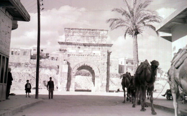 A photograph of Latakia in early 20th century.